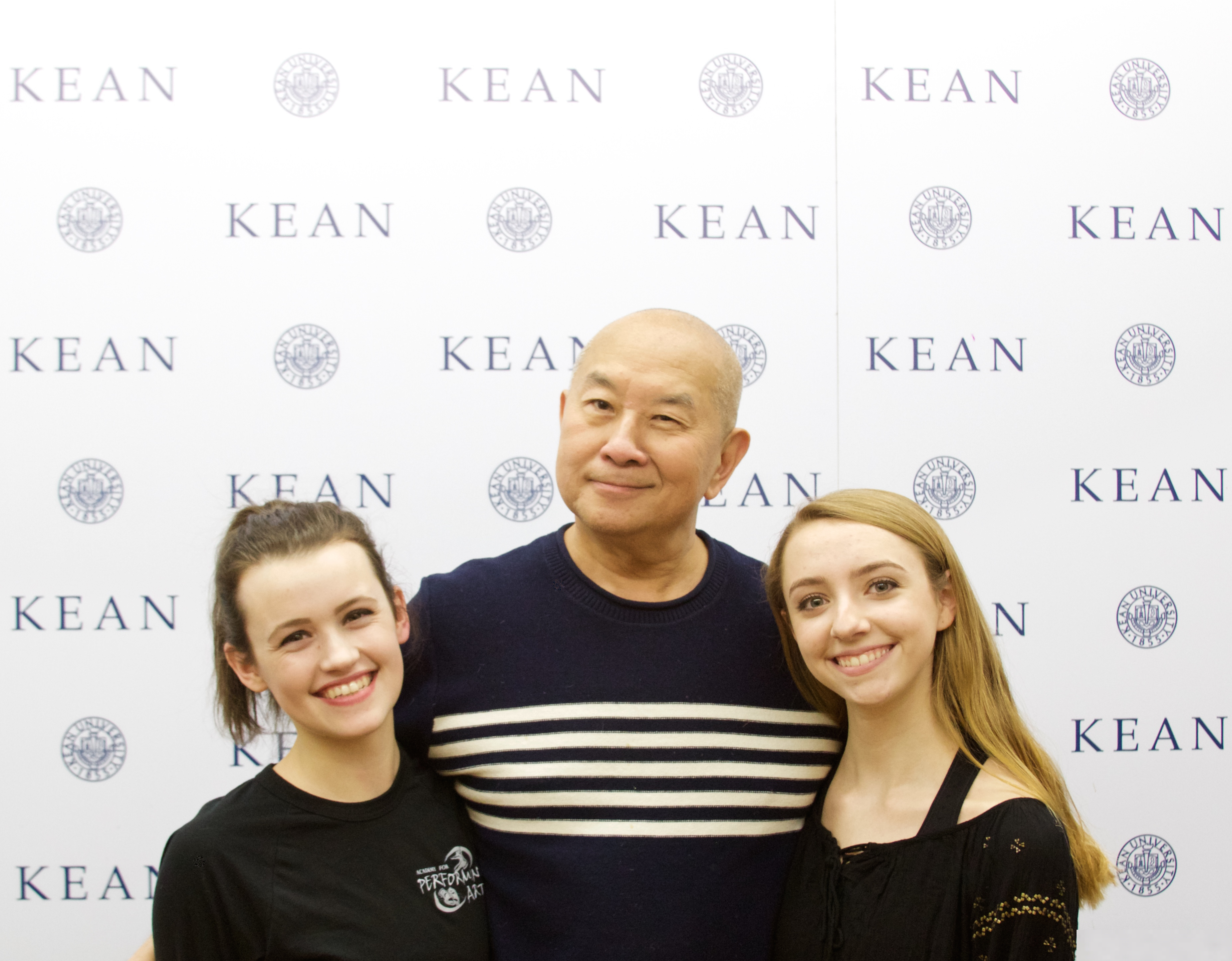 Michael Mao poses with dancers from Kean University who joined his company for its 2017 Lunar New Year Celebration.